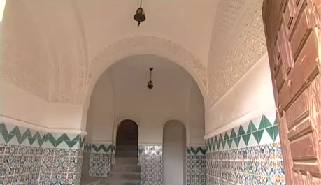 Museum of the mausoleum of the "Bey Bouchlaghem" and his wife "Lalla Aichouche"